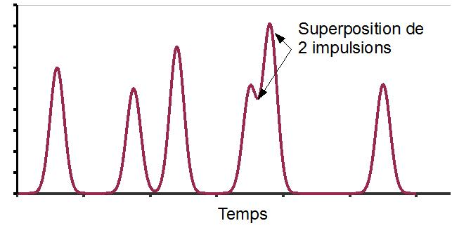 Comparison of a part of spectra of a glass obtained by Xray fluorescence analysis, respectively with EDS and WDS spectrometers